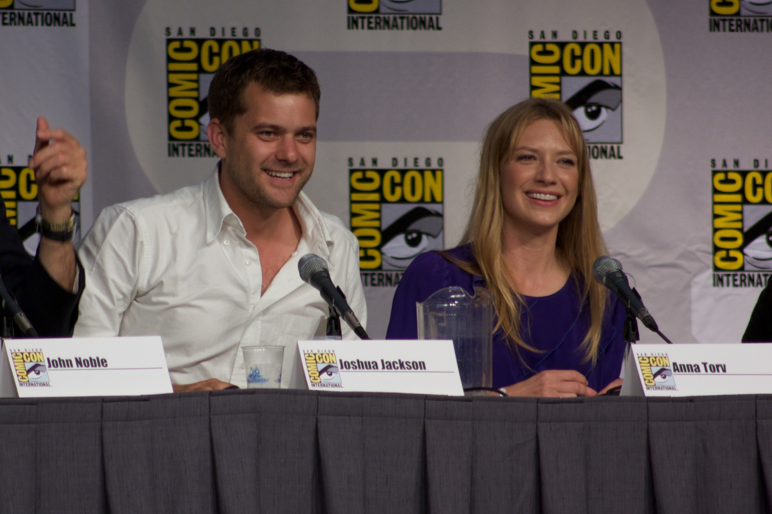 "Fringe" Panel. Actors Joshua Jackson and Anna Torv at San Diego 2010 Comic-Con International.